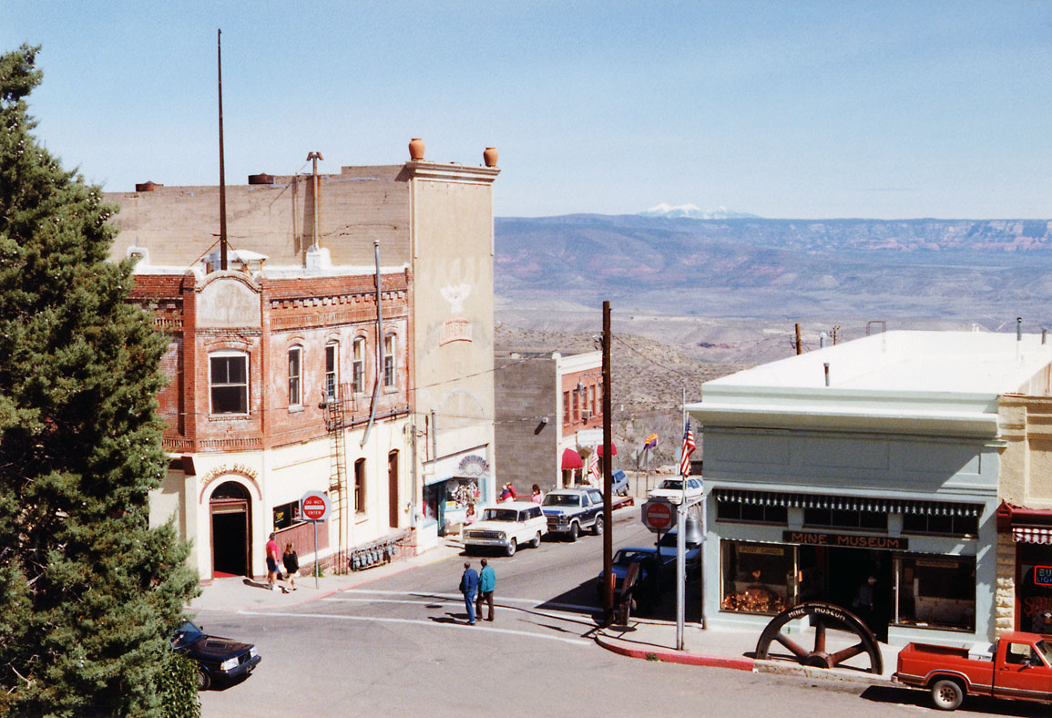 Jerome, Arizona In the middle part of the image, in the distance, covered by snow, are the San Francisco Peaks, the volcano mountain near the city of Flagstaff. It is the highest peak in the state.